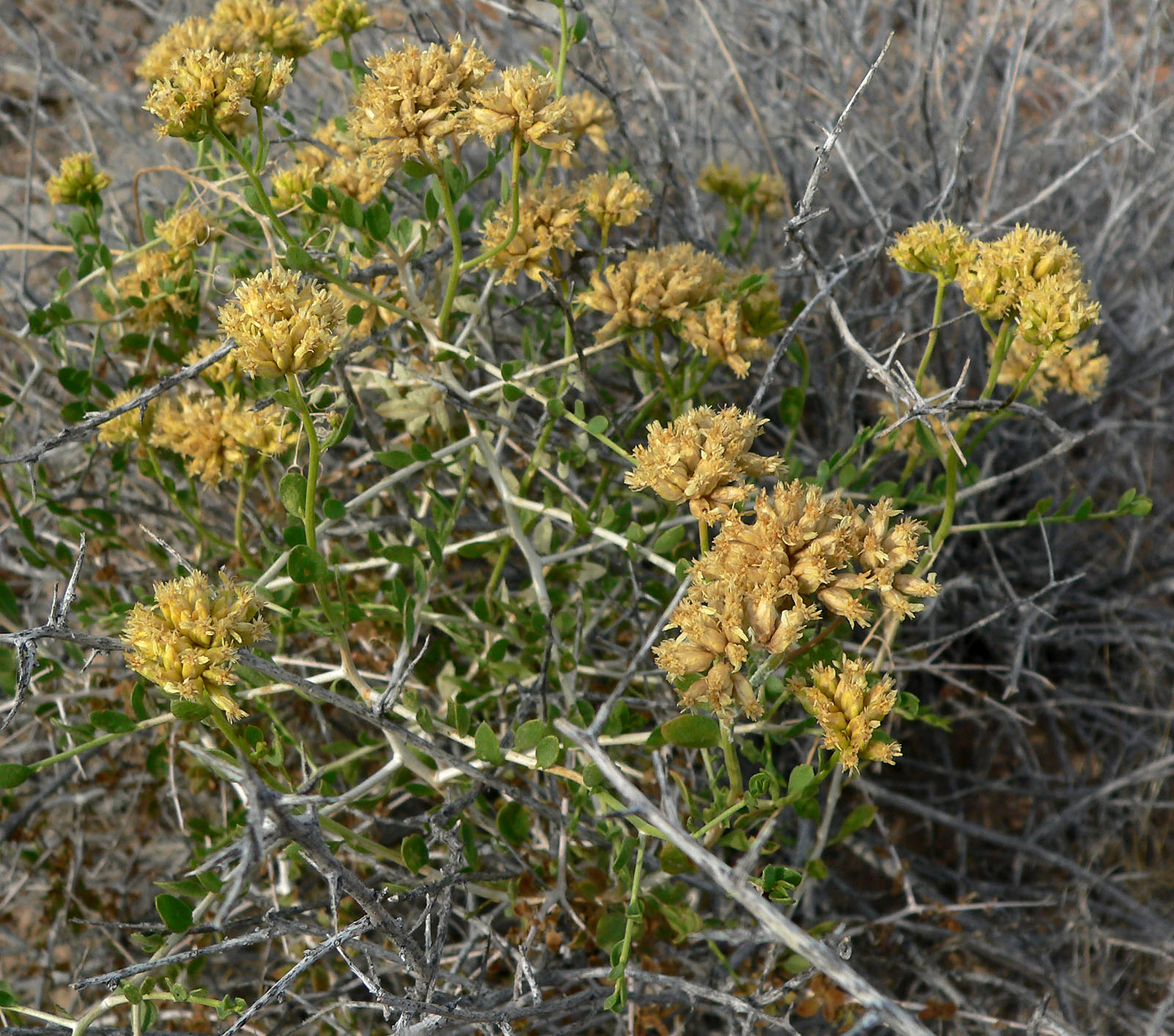 Amphipappus fremontii at upper end of Moapa Valley off Warm Springs Road, southern Nevada